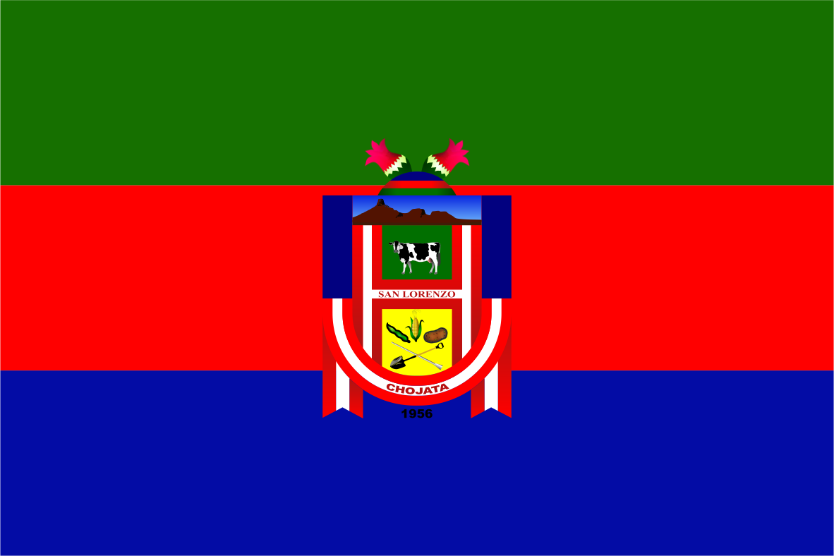 Chojata district - General Sanchez Cerro province - Region Moquegua